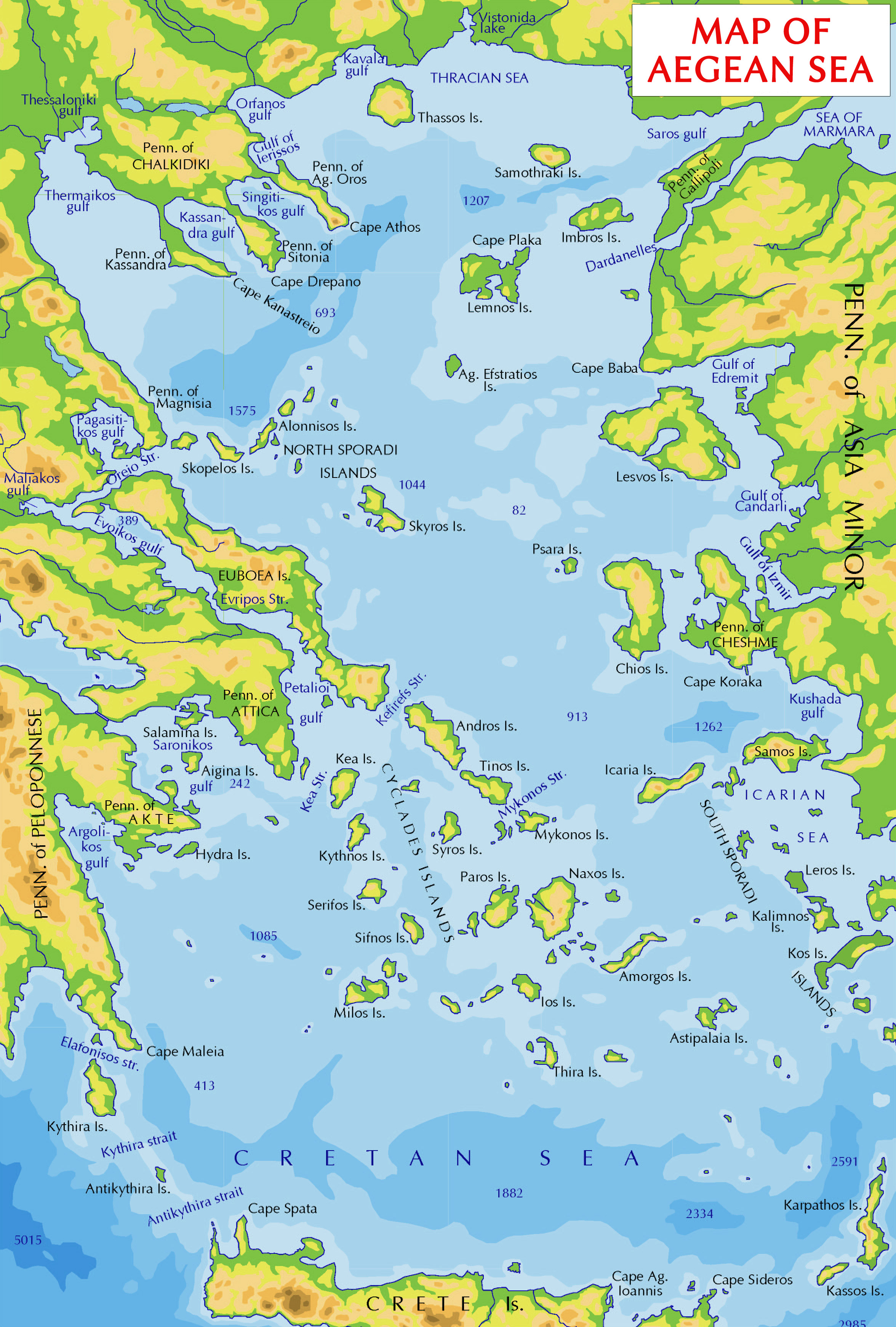 Map of Aegean Sea in English